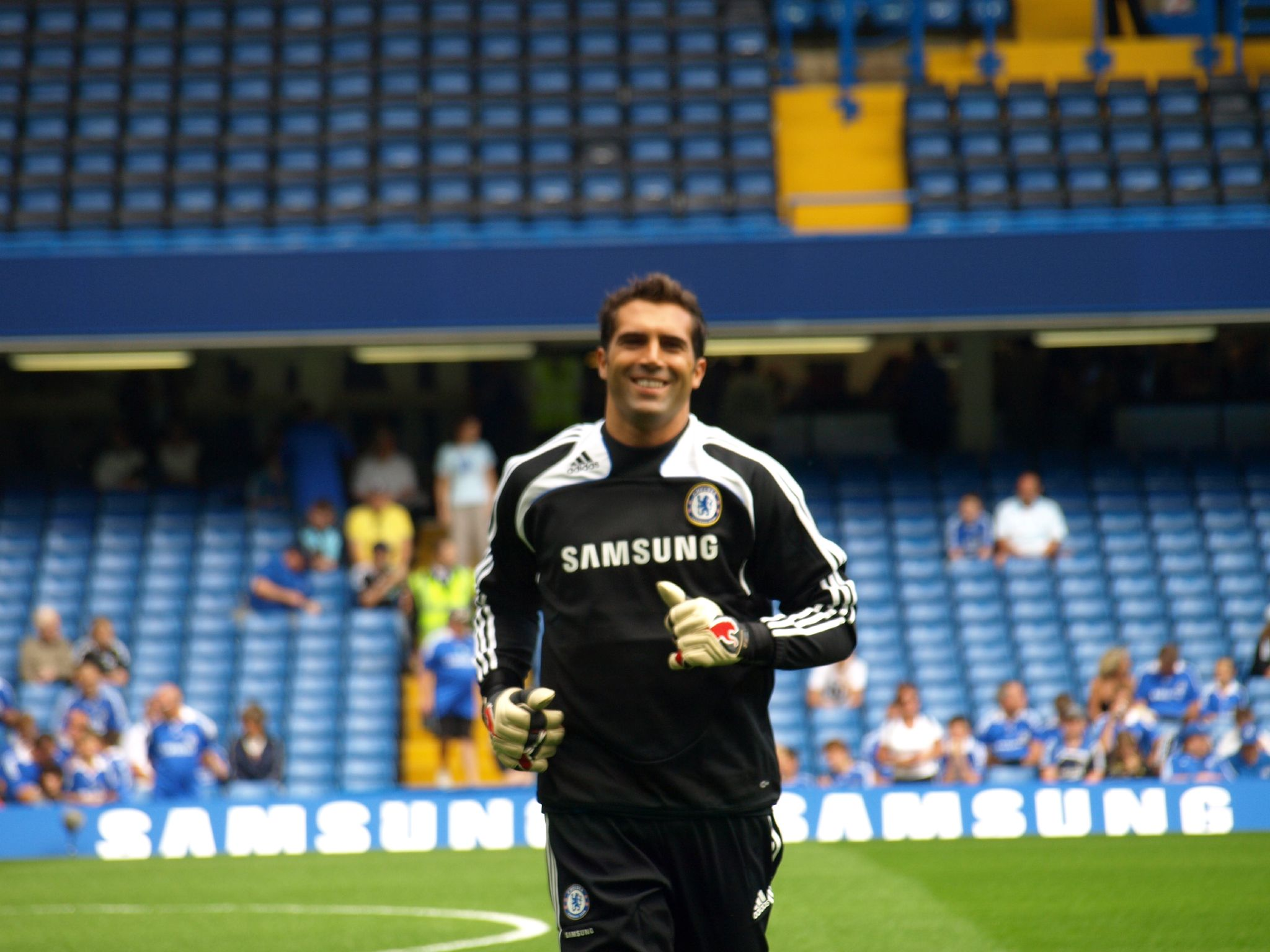 Henrique Hilario of Chelsea